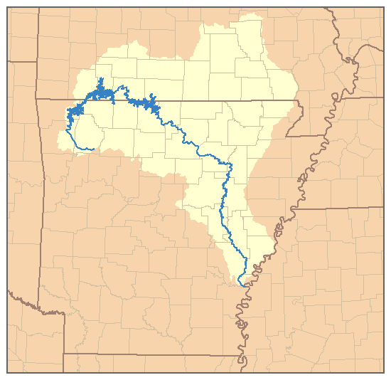 This is a map of the White River (Arkansas) watershed. Credits I, Pfly, made it, based on USGS data.